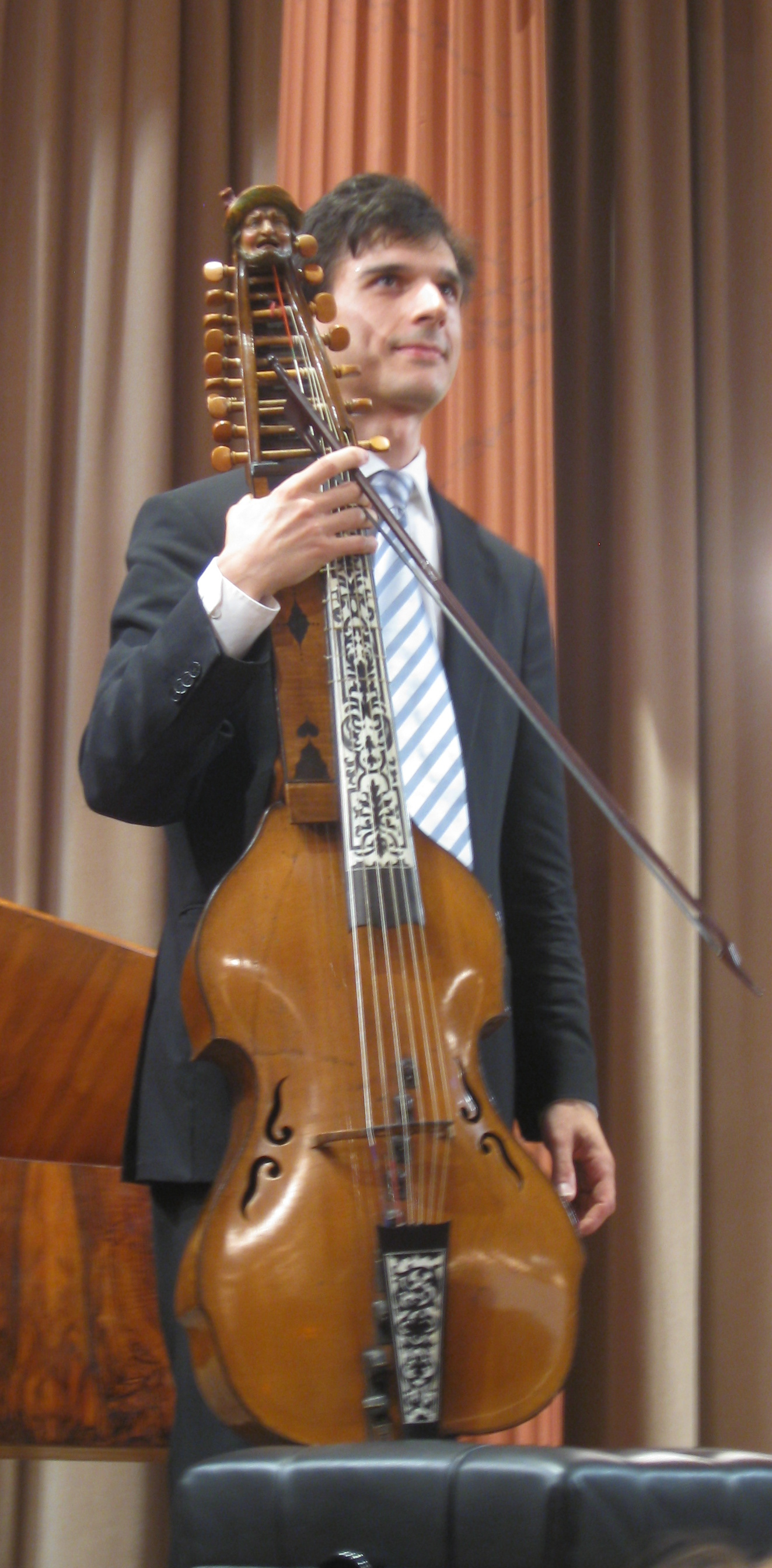 Christoph Urbanetz holding a baryton made by Daniel Achatius Stadlmann (Vienna, 1732), from the estate of Joseph Haydn, now owned by the Gesellschaft der Musikfreunde